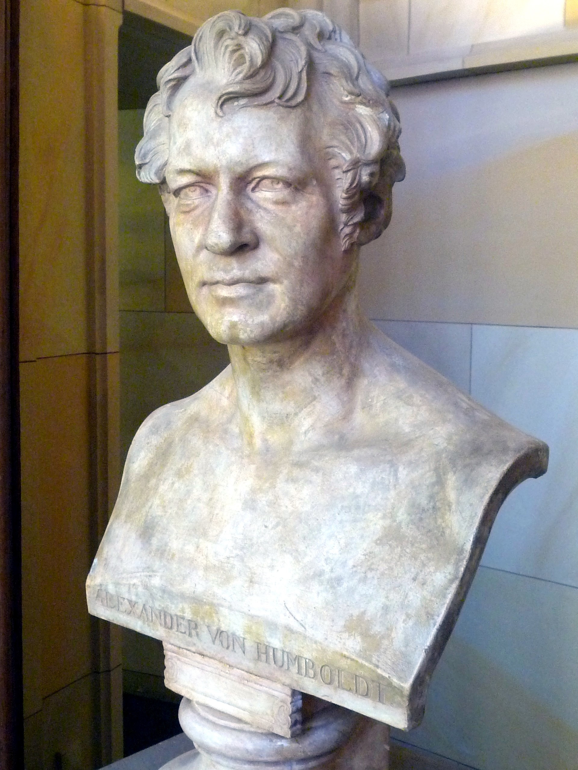 Portrait Alexander von Humboldt. Sculpture by Christian Daniel Rauch. 1823. Present location: "Friedrichswerdersche Kirche", today used as "Schinkelmuseum", in Berlin-Mitte.